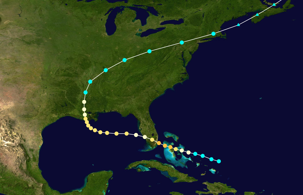 1888 Atlantic hurricane 3 track.png track. Uses the color scheme from the Saffir-Simpson Hurricane Scale.